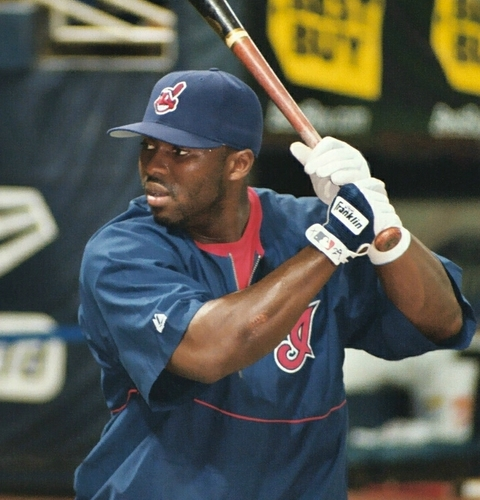 Taken by user and released into public domain. 02:36, 25 October 2006 . . Dlz28 . . 480×500 (176 KB)